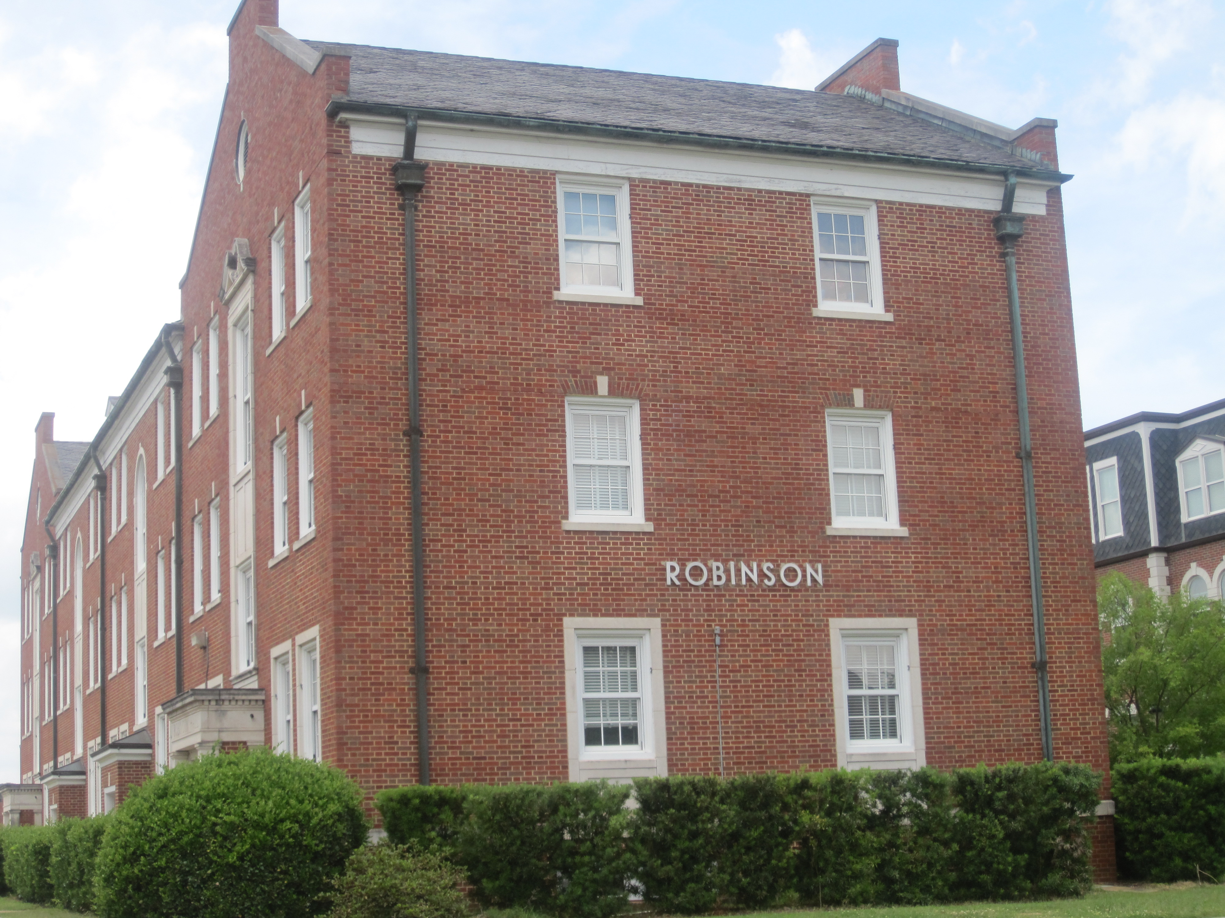 I took photo with Canon camera.